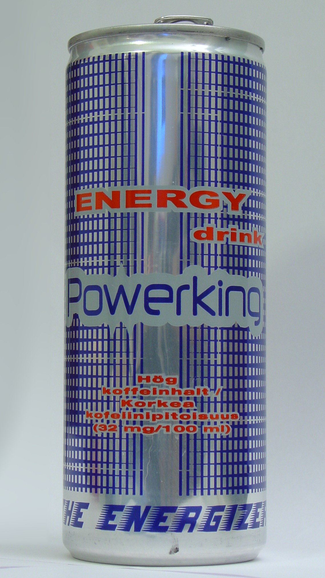 A can of Powerking.